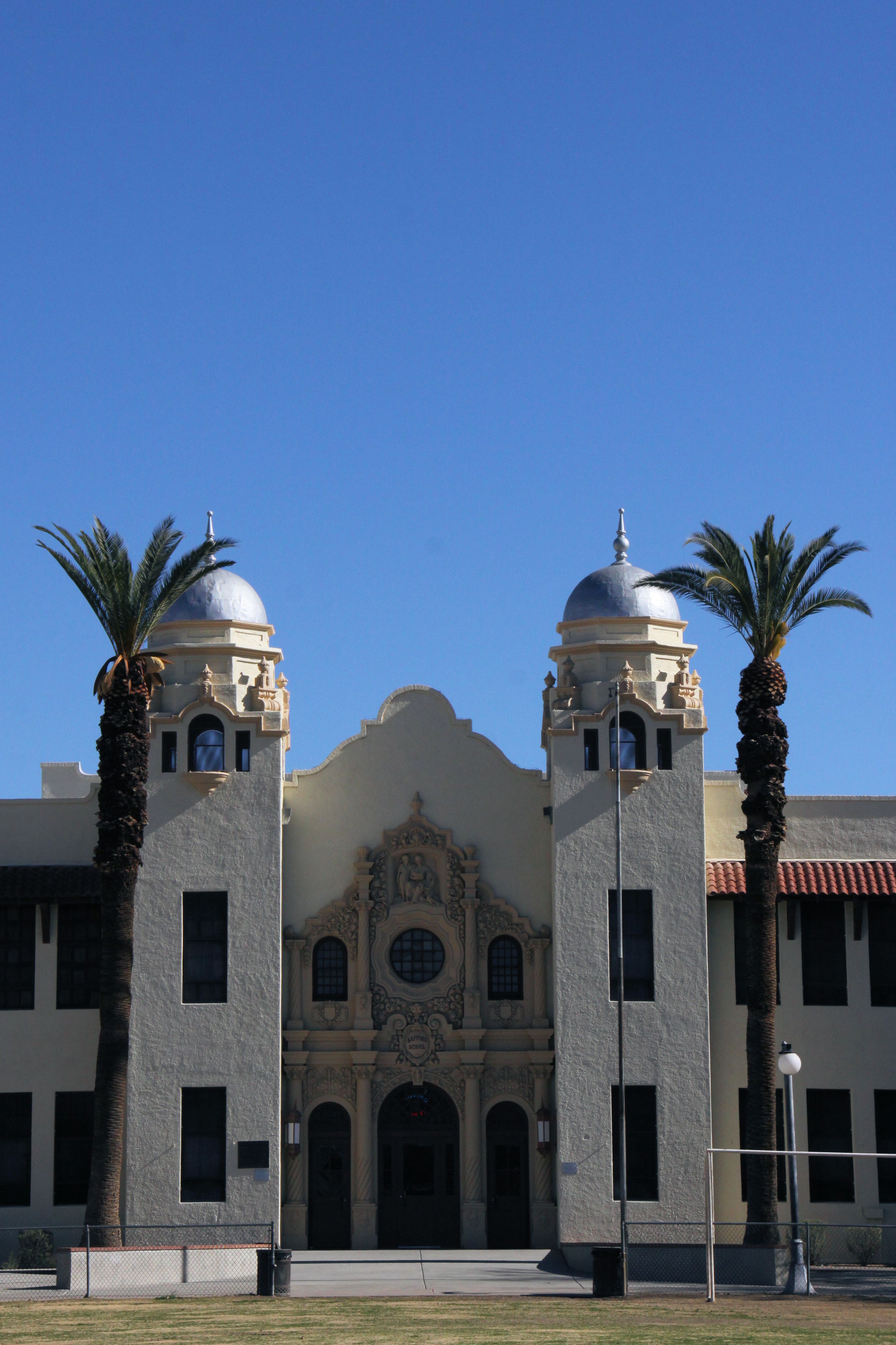 Safford School, Tucson, AZ. Architect: Annie Rockfellow